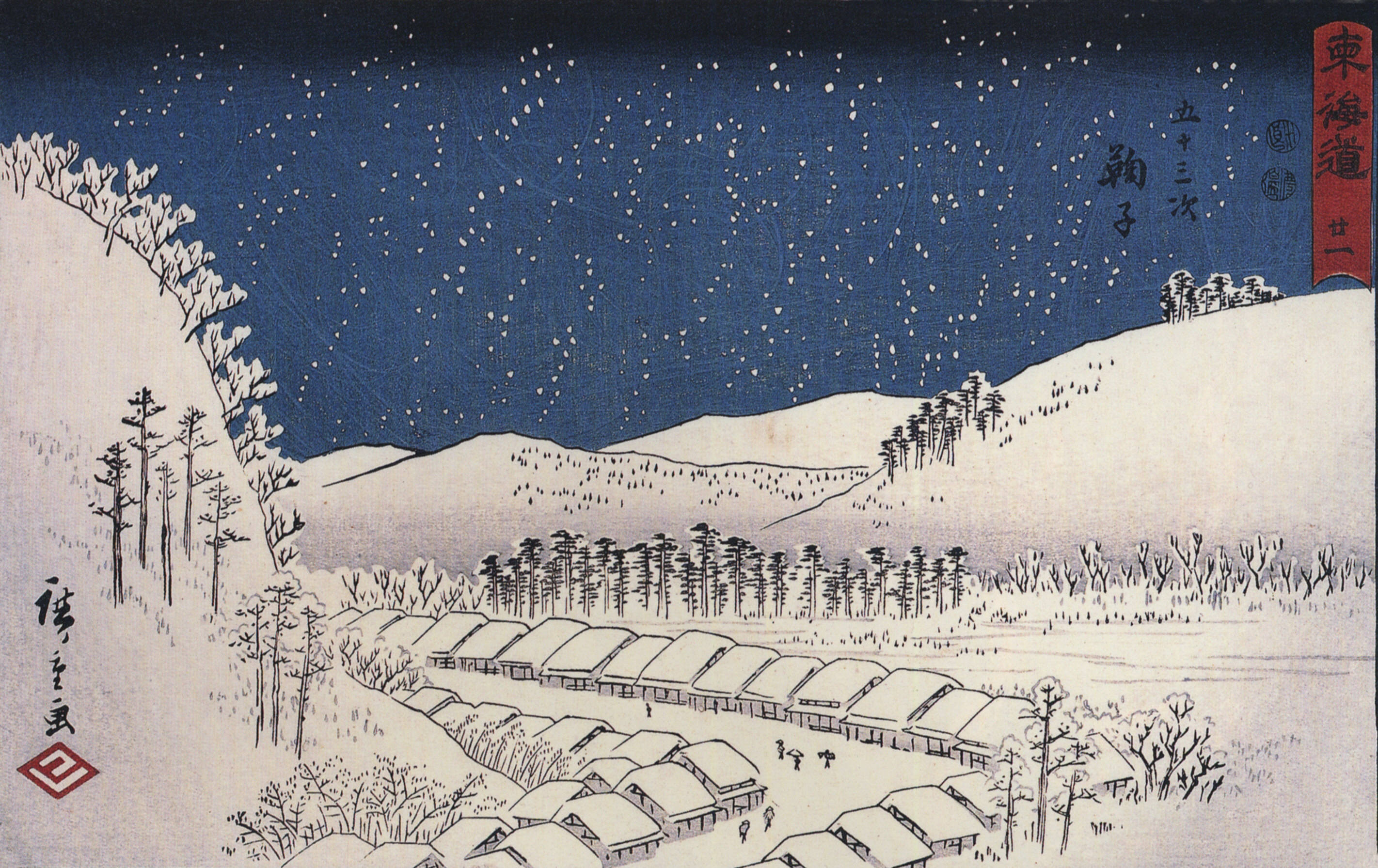 Artist:Utagawa Hiroshige,"Reisho Tokaido":Mariko, 1840, woodcut, Location:Philadelphia Museum of Art Hiroshige "Reiso Tokaido": Mariko, 1840, woodcut, Philadelphia Museum of Art artist Utagawa Hiroshige